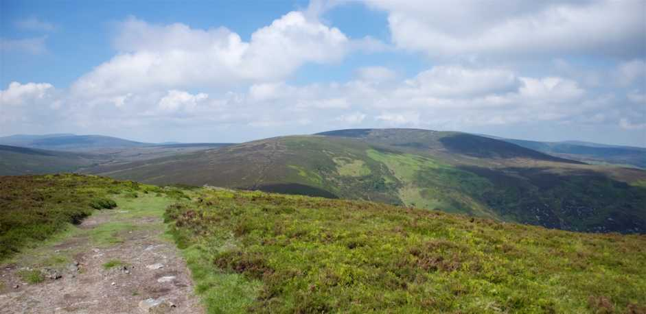 Summit of Tonduff East Top (near) and the main Tonduff (back), as seen from the summit of Maulin, Wicklow, Ireland